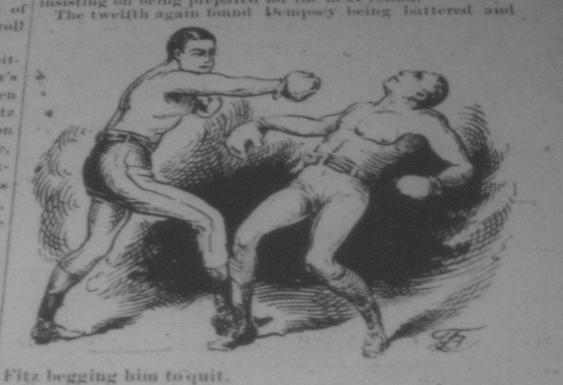 Robert Fitzsimmons knocks down Jack "Nonpariel" Dempsey, Olympic Club, New Orleans, 1891.